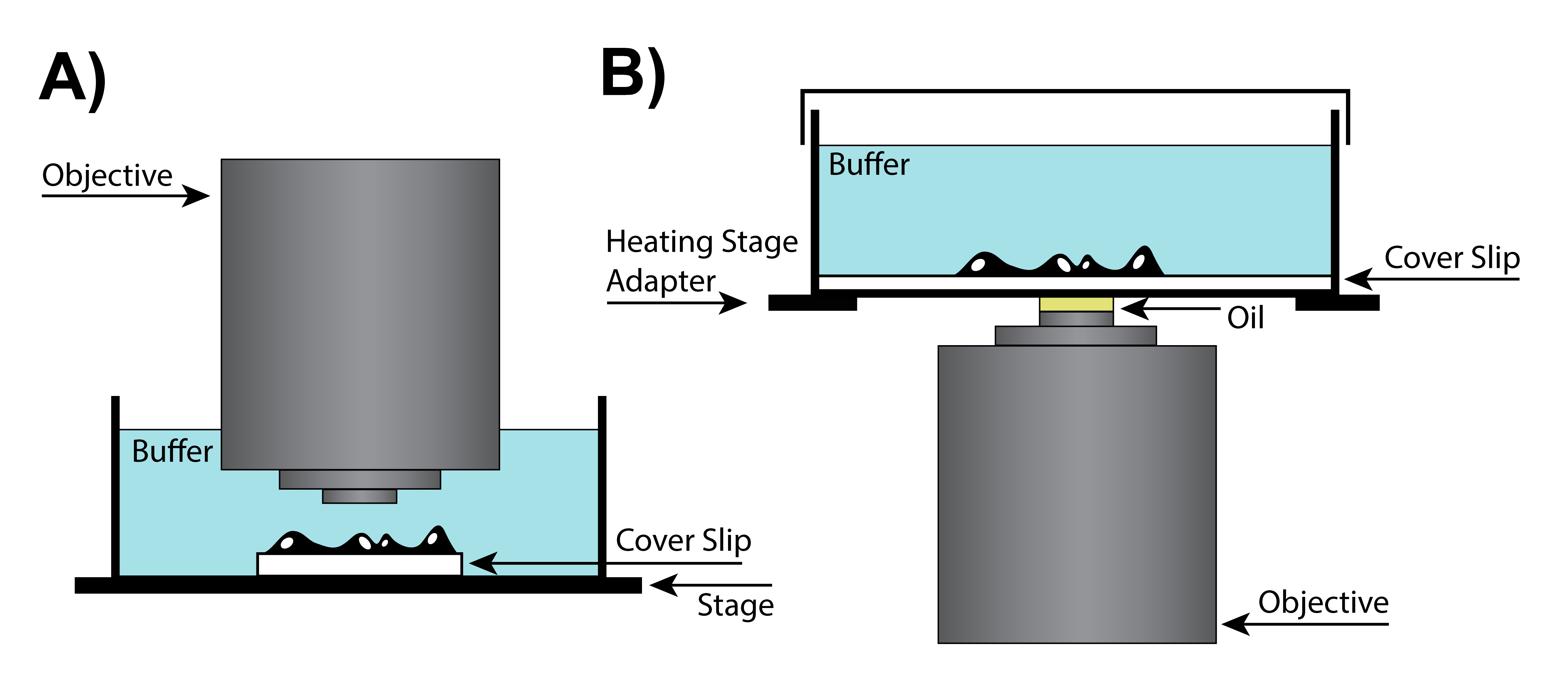 Two common lens configurations for live-cell imaging.